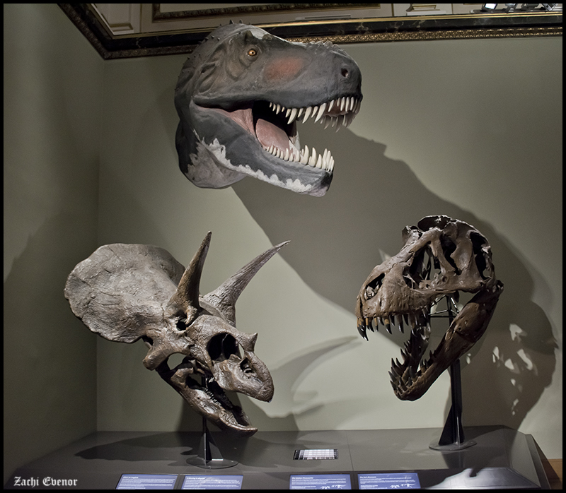 Skulls of Triceratops (left) and Tyrannosaurus (right), Vienna's Natural History Museum Vienna Natural History Museum, Austria, 2014 Wien Naturhistorisches Museum, Osterreich, 2014 המוזיאון להיסטוריה של הטבע, וינה, אוסטריה, 2014 This image was created by Zachi Evenor צחי אבנור and is released under Creative Commons CC-BY license. When using this image credit it to Zachi Evenor (in Hebrew for use in Israel: צחי אבנור). Please avoid using these images in an abusive or offensive manner. Please link to the original image on Wikimedia Commons or Flickr if possible. For more free to use images visit Category:Photographs by Zachi Evenor. For non-free images visit Flickr: . Enjoy this image :)